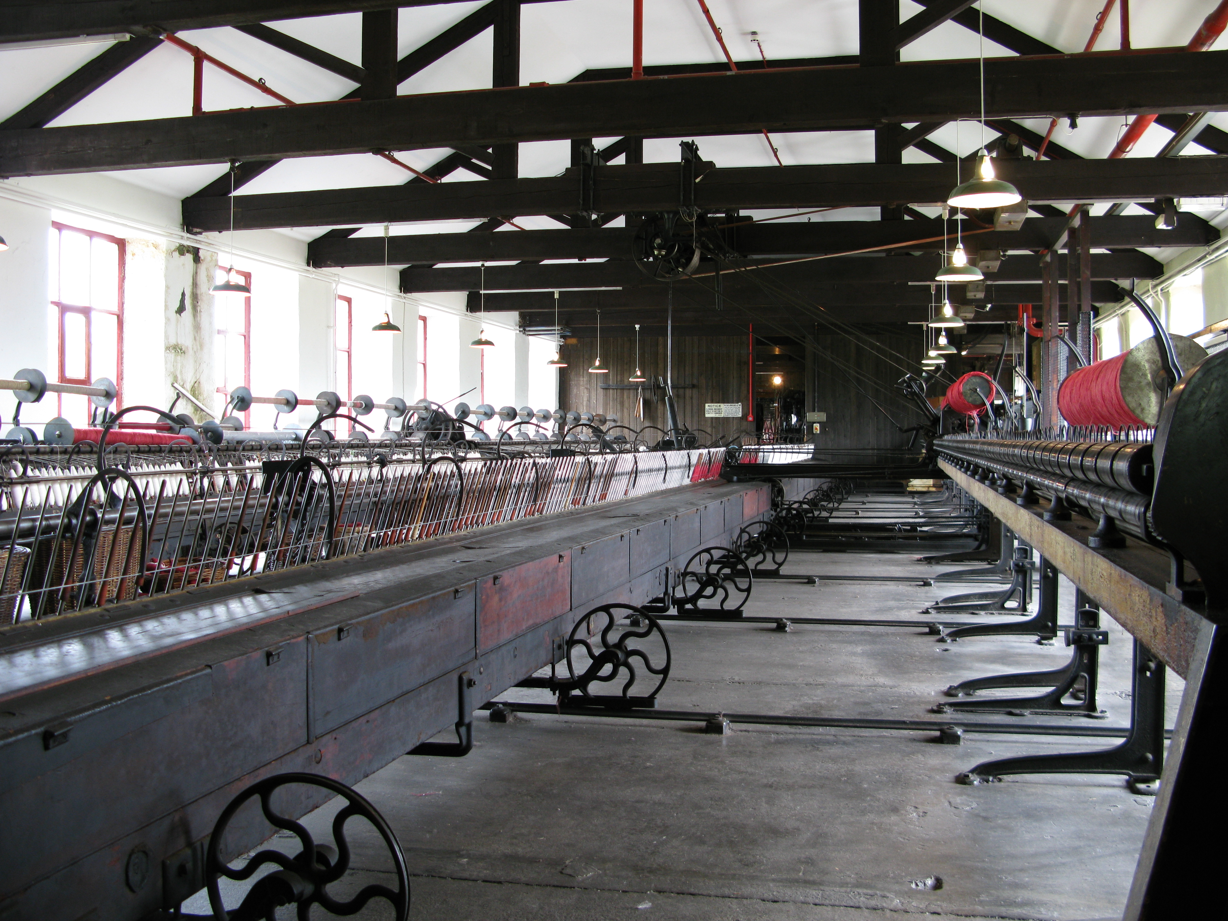 1904 Platt built condensor mule (self-actingb) at Armley Mills Industrial Museum near Leeds, Yorkshire , used for spinning wool. This mule is ungaited (not see up).